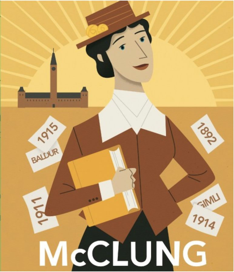 Nellie McClung